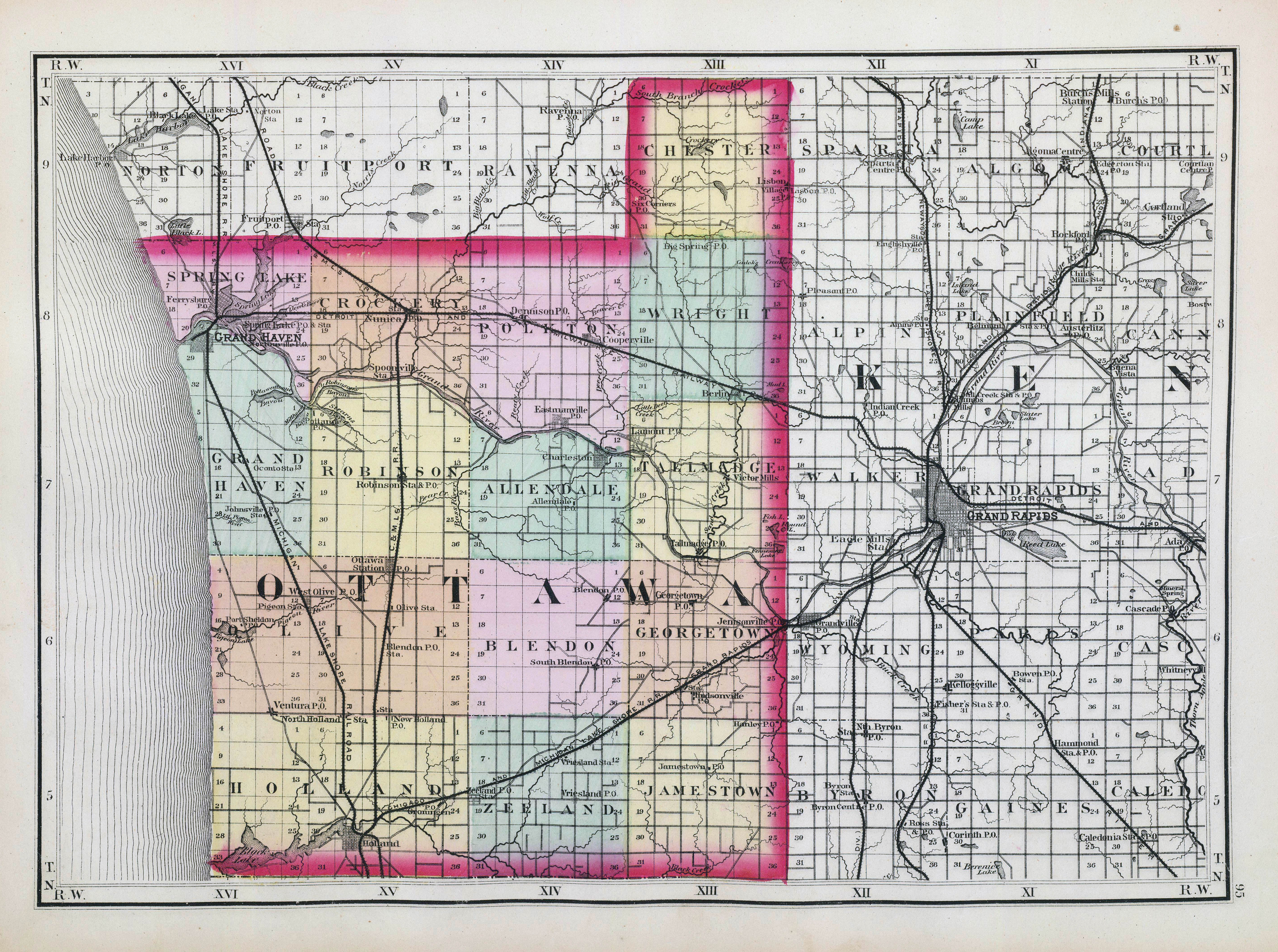 1873. The H.F. Walling Atlas. Please visit my physical visitations of these long gone places: Overnight Photo Trips Flickr data on 2011-08-29: Tags: Michigan County, H.F. Walling Map, David Rumsey Collection, 1873 Michigan License: CC BY 2.0 User: Marty Hogan